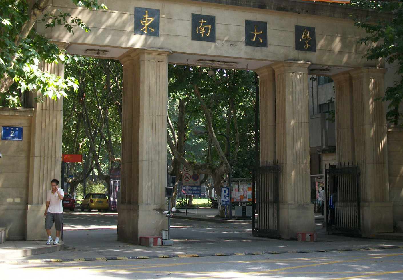 Southeast University gate.